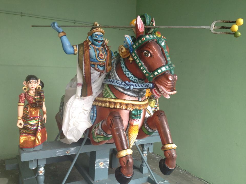 ஊமைக்கருமியண்ணன் குதிரை வாகனம்